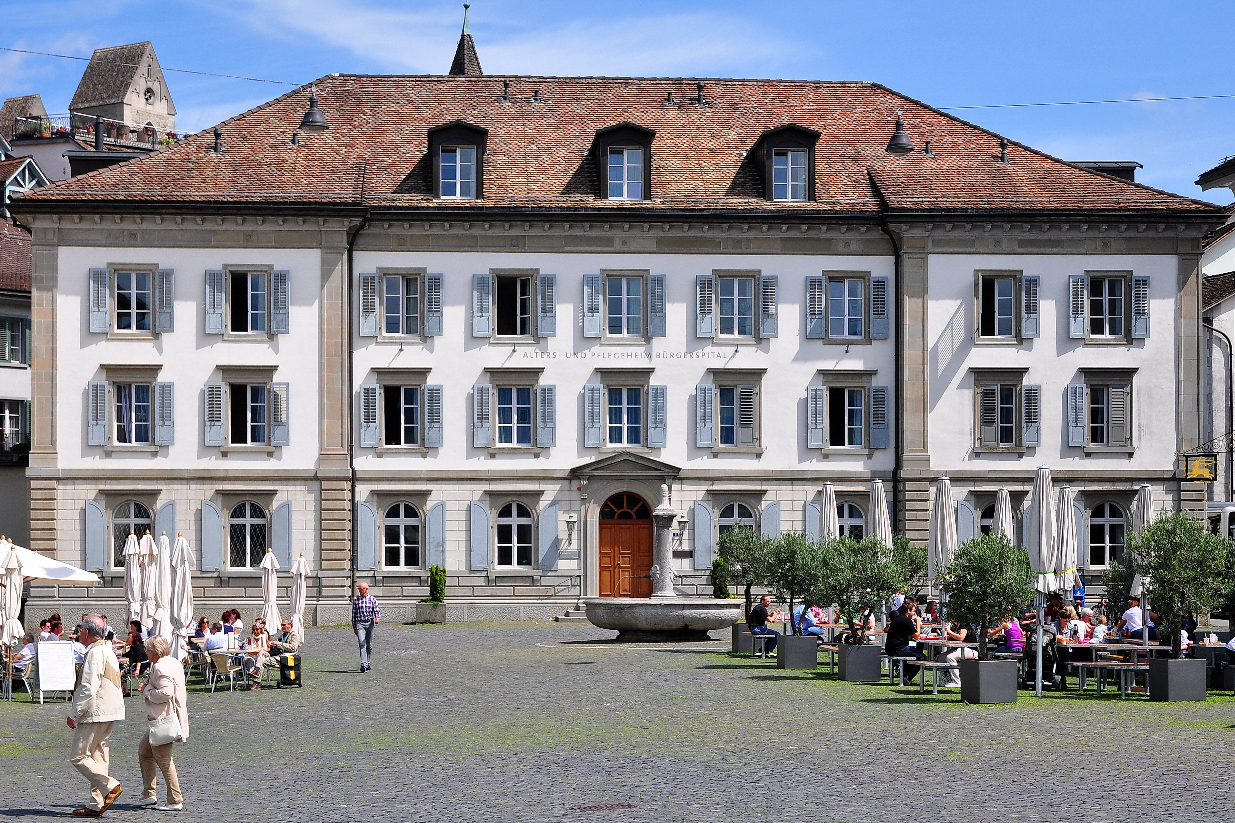 The former Heiliggeist-Spital (1845, first mentioned in the 13th century A.D.) at Fischmarktplatz in Rapperswil (Switzerland)